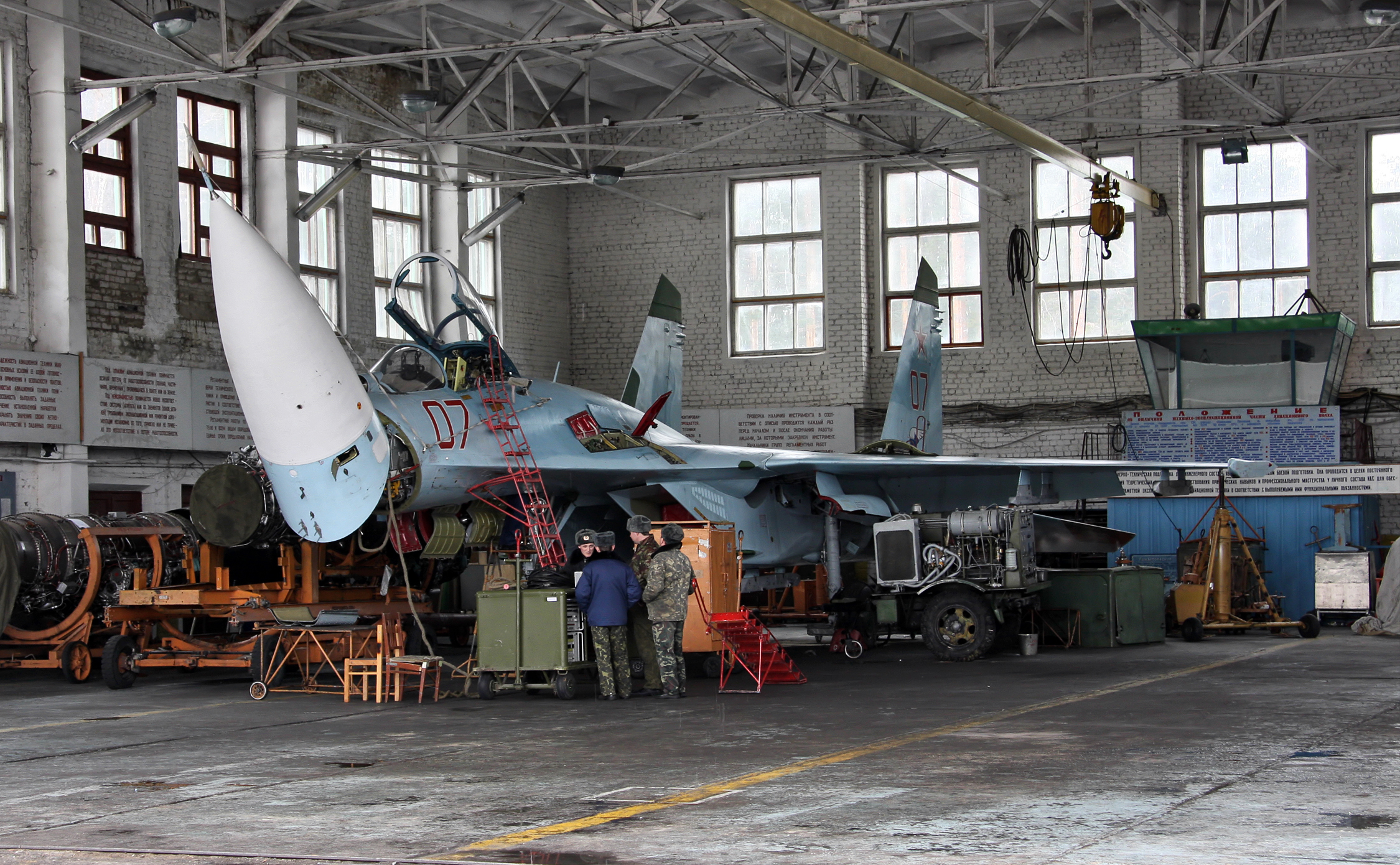 790th Fighter Order of Kutuzov 3rd class Aviation Regiment, Khotilovo airbase